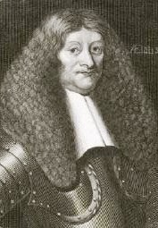 Sir John Gell 1593 born. 1st baronet From a painting owned by Thomas Bloor and given to Philip Gell. This copy comes from the collection of Thomas Bateman The text on the full version of this engraving reads "To Philip Gell of Hopton Esq. This portrait engraved from the original painting in his possession is gratefully and respectfully inscribed by his obliged and obedient servant, Thomas Blore."